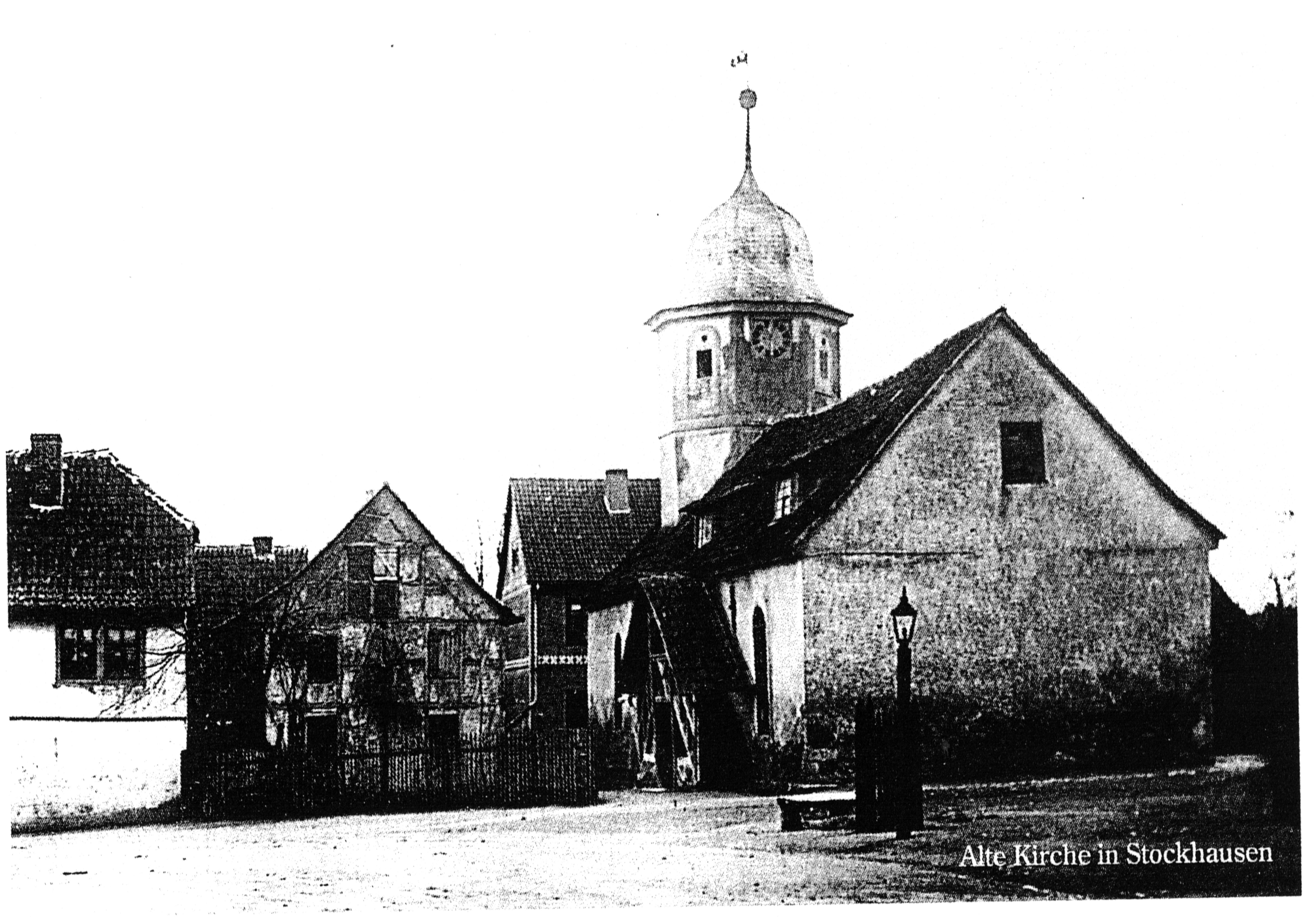 Old St. Matthew's Church in Stockhausen (Sondershausen)